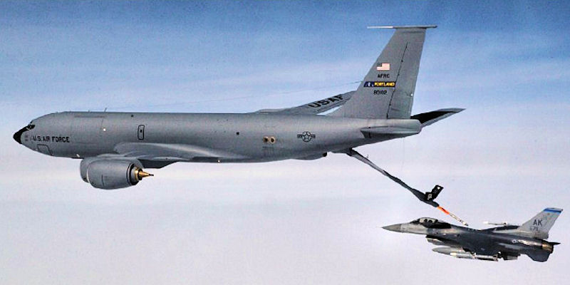 MadDill AFB KC-135 refueling an Eielson 354th FW F-16